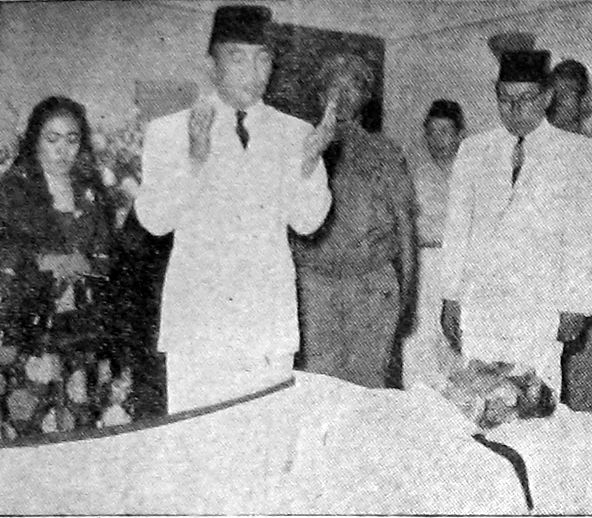 Sukarno praying over the body of Agus Salim